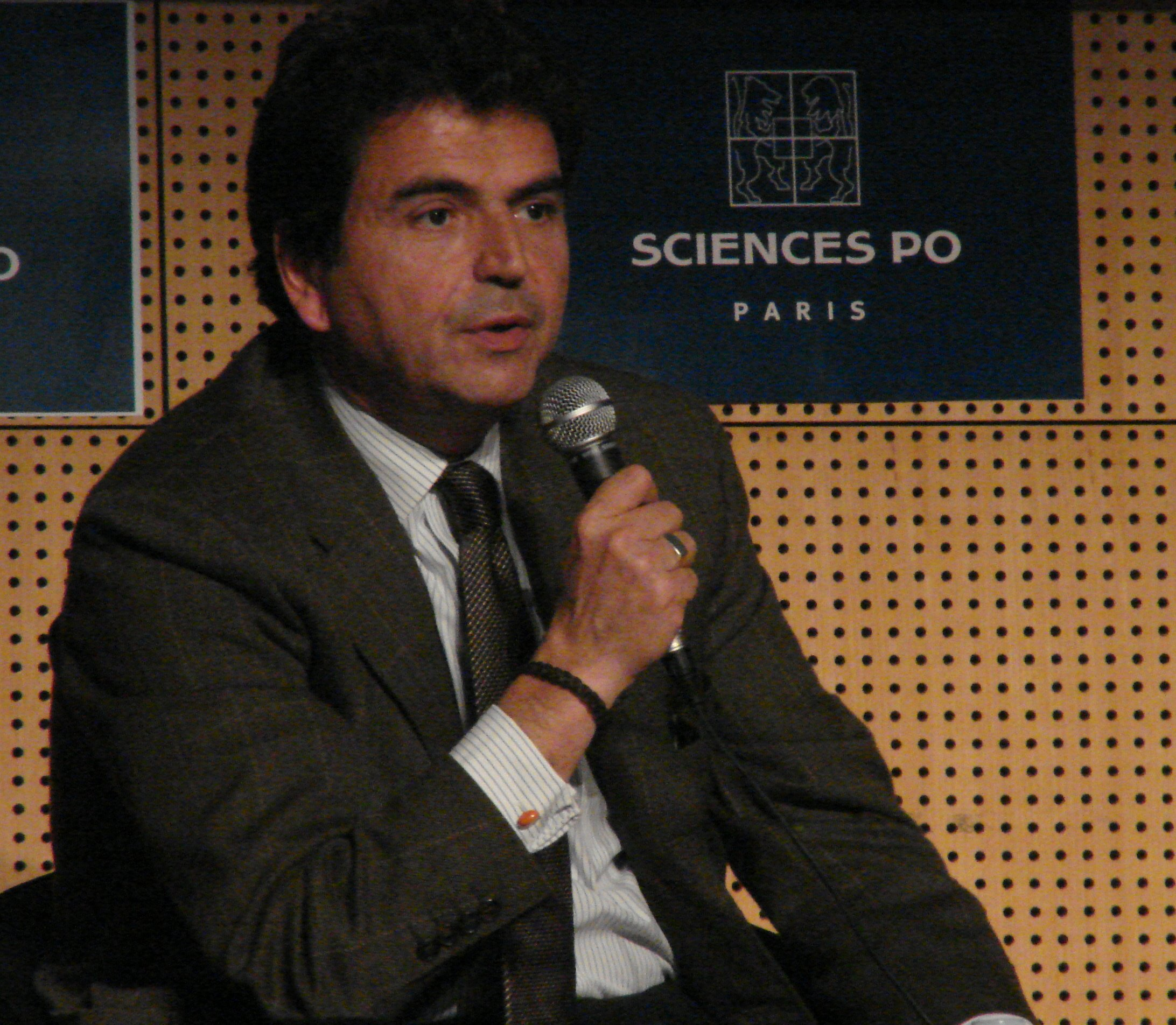 Pierre Lellouche, by me, 29/03/2007.